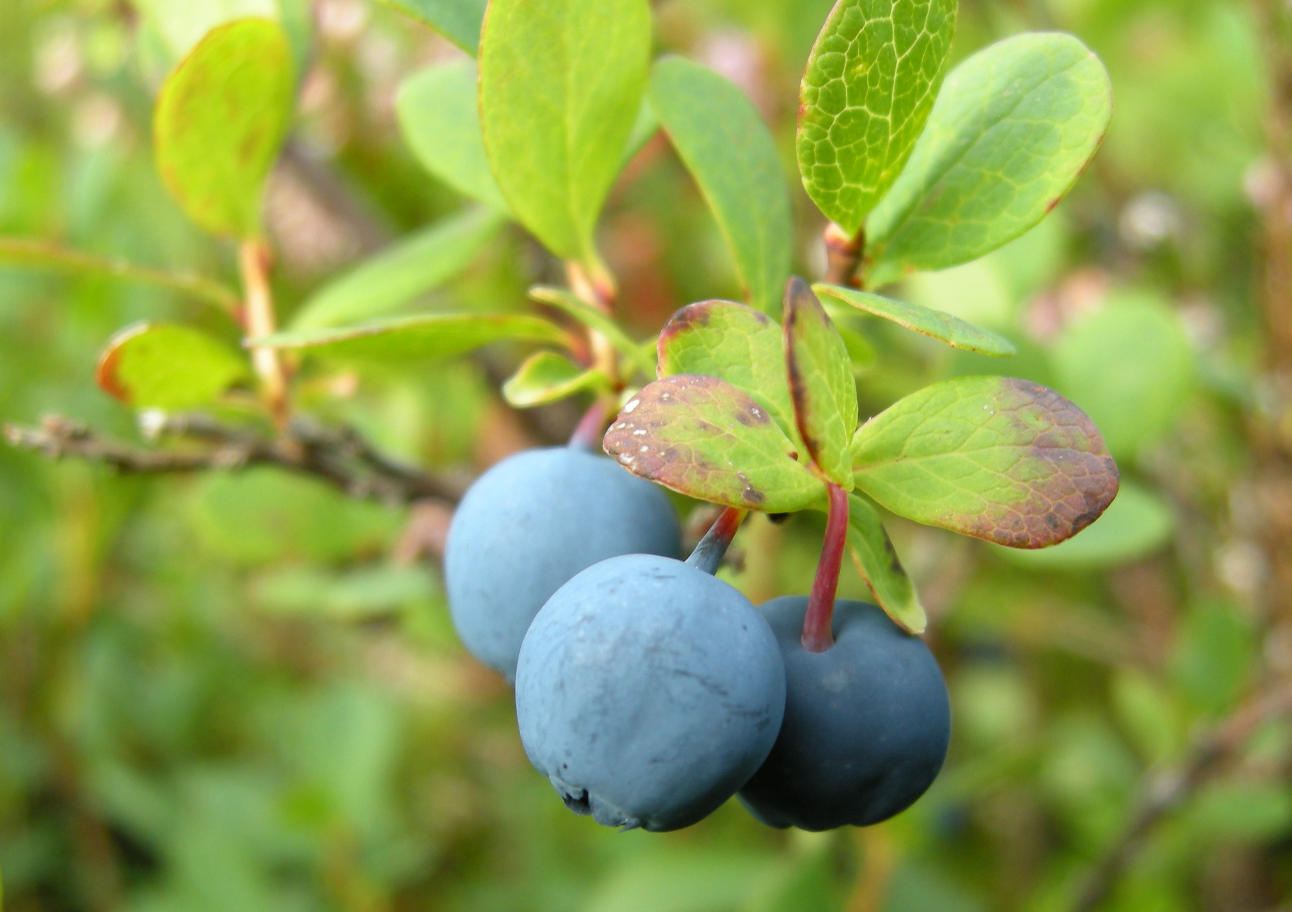 Vaccinium uliginosum